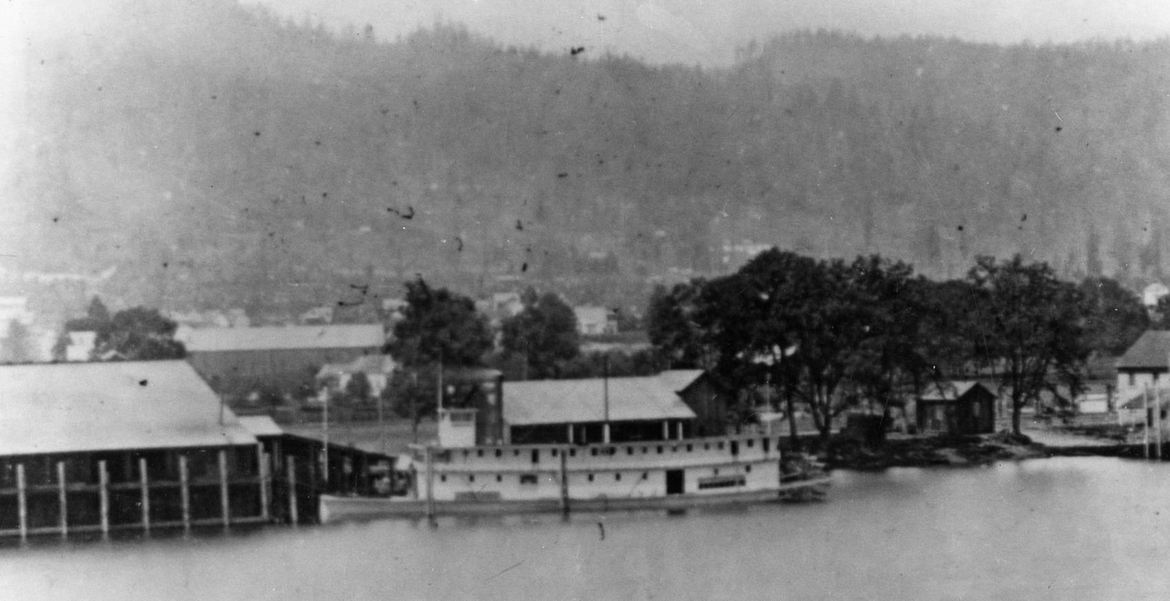 River steamer Shoshone, on Willamette River at Portland, between 1870 and 1873.